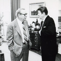 Jim Rhodes and Ronald Reagan in Oval Office in 1982